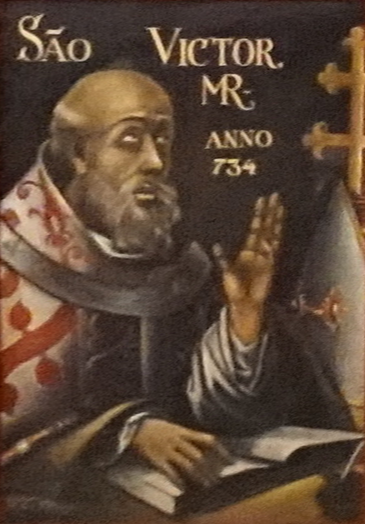 Archbishops Gallery in Braga, Portugal.